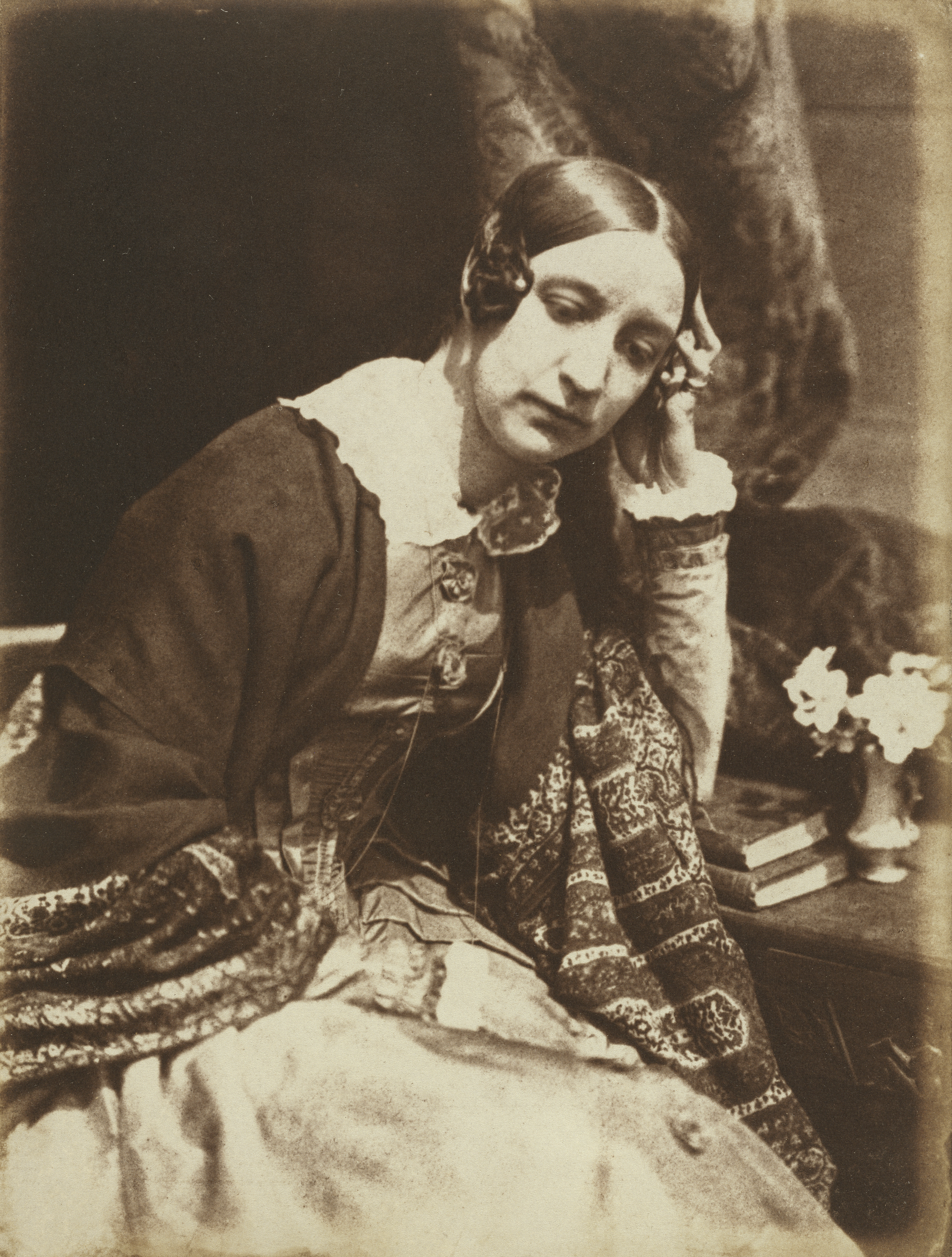 Calotype photograph of Elizabeth Rigby (later Elizabeth, Lady Eastlake), taken about 1847 by David Octavius Hill and Robert Adamson.